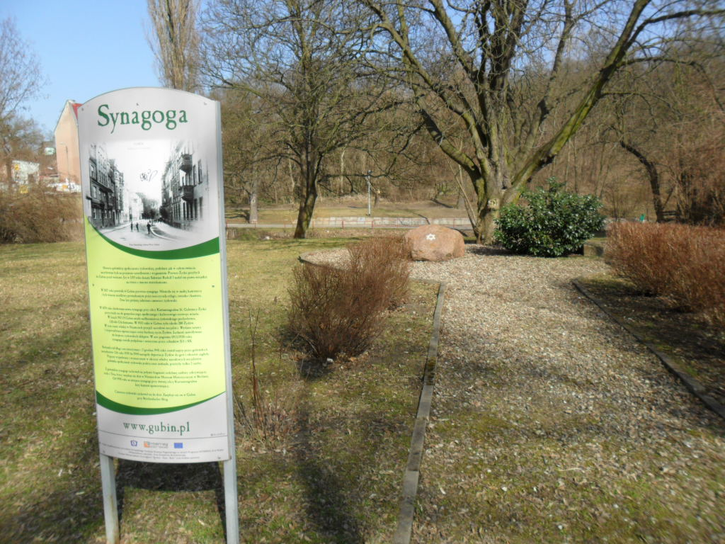 Commemoration of the synagogue in Gubin